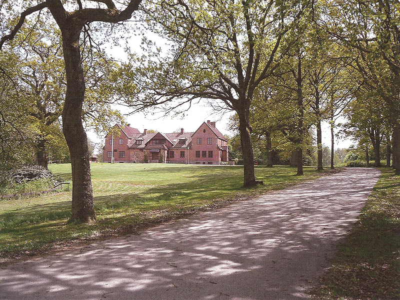 Stockamöllan Herrgård 2007